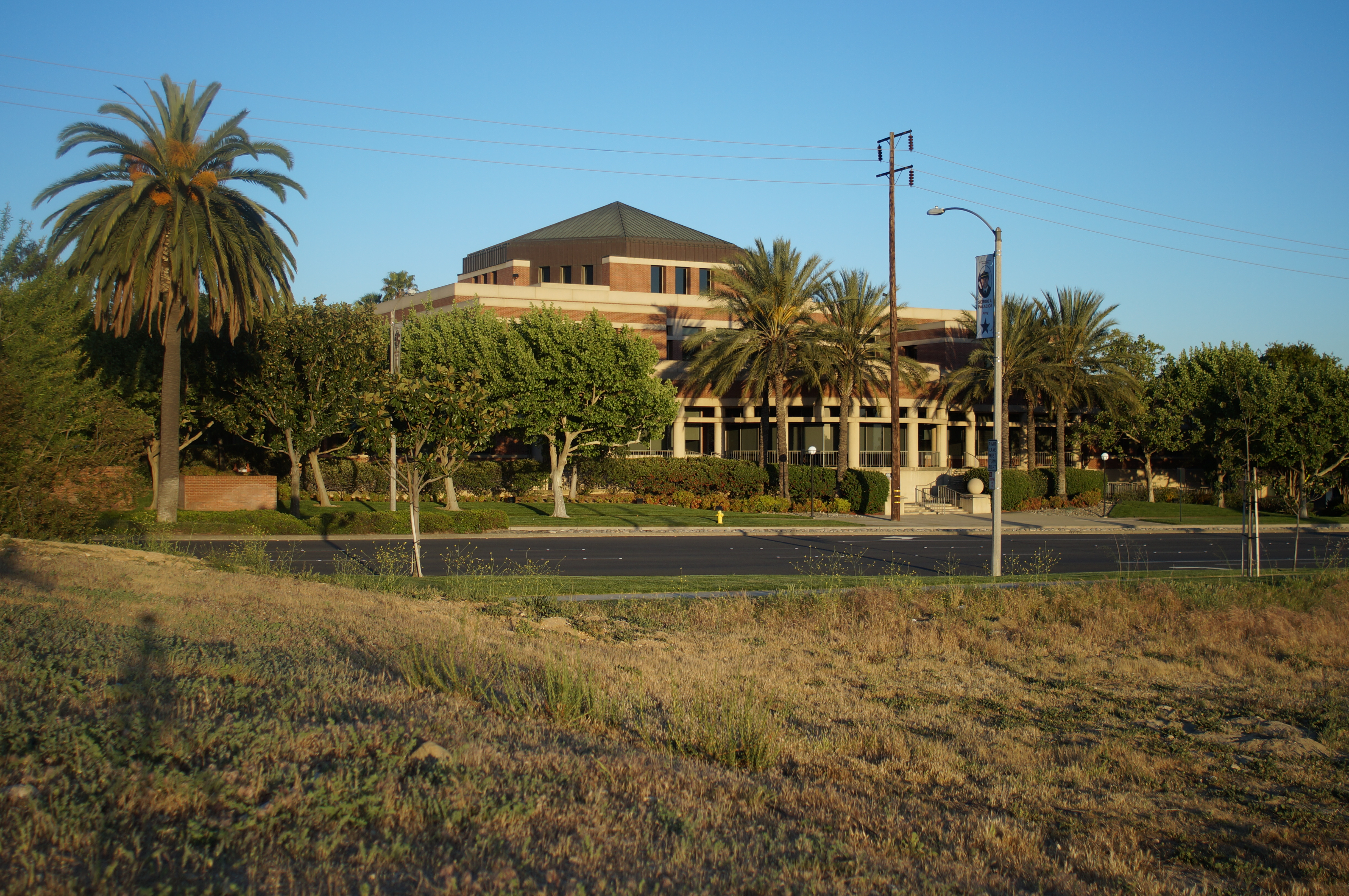 This is the Rancho Cucamonga Civic Center government complex west entrance, as seen from across Haven Avenue, in Rancho Cucamonga California. The complex houses government functions for the city and also for part of San Bernardino County.